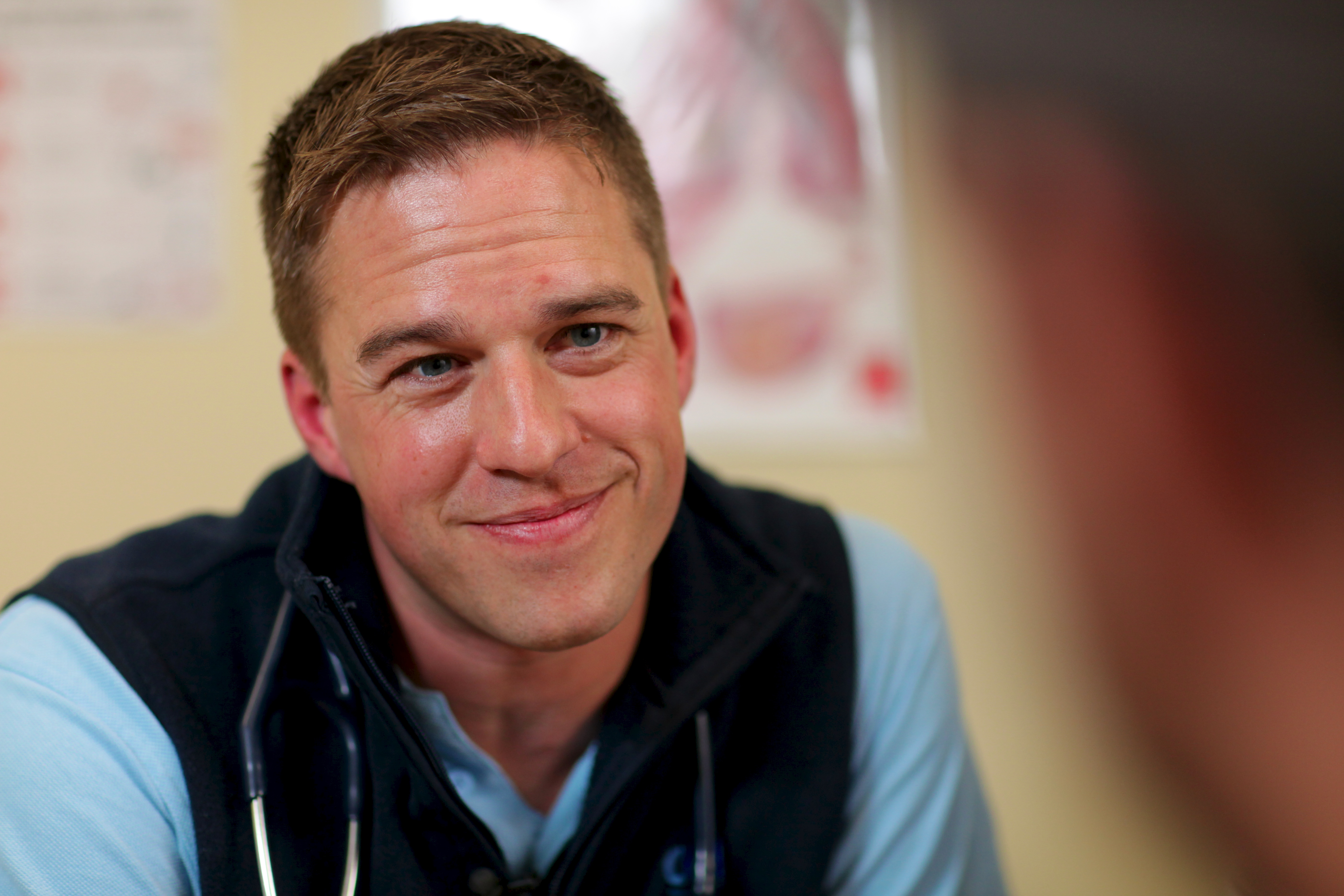 A nurse practitioner at the Canberra walk-in centre.